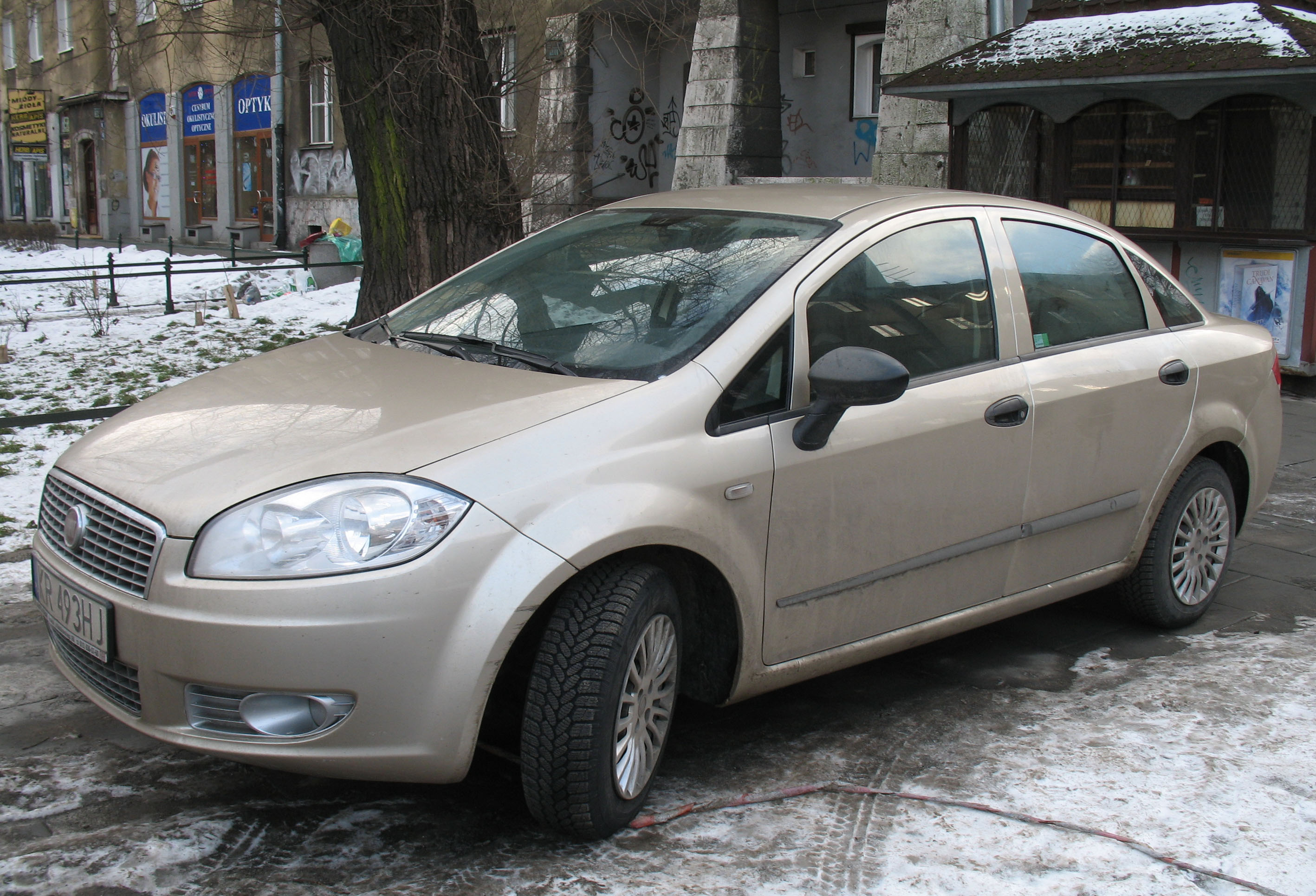 Fiat Linea car in Kraków, Poland. Built Tofas in Turkey.